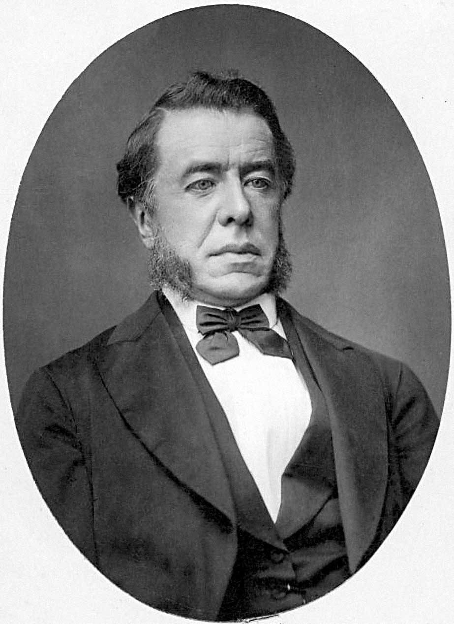 Portrait of Robert Fruin with a copy of his signature.